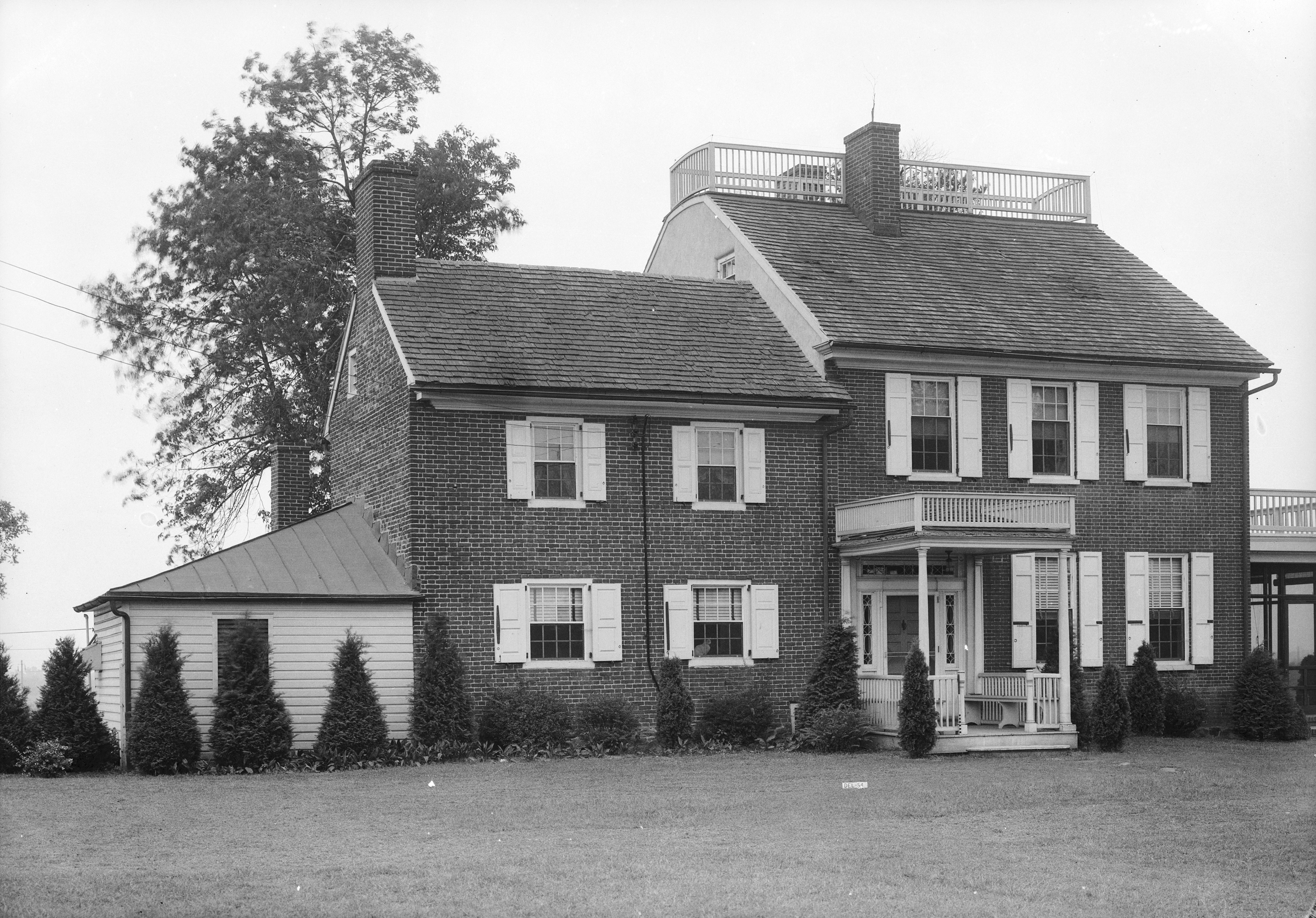 Woodstock, aka Henry Latimer House, on the NRHP since September 7, 1973. Located at 102 Middleboro Rd. in Banning Park, south of Wilmington, Delaware. Built 1765. Photo by HABS, Sept 14, 1936